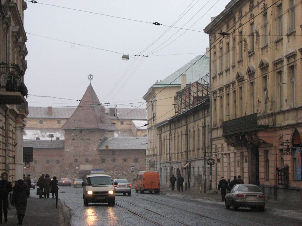 Lychakivska street before morning rush-hour. Lviv, Ukraine